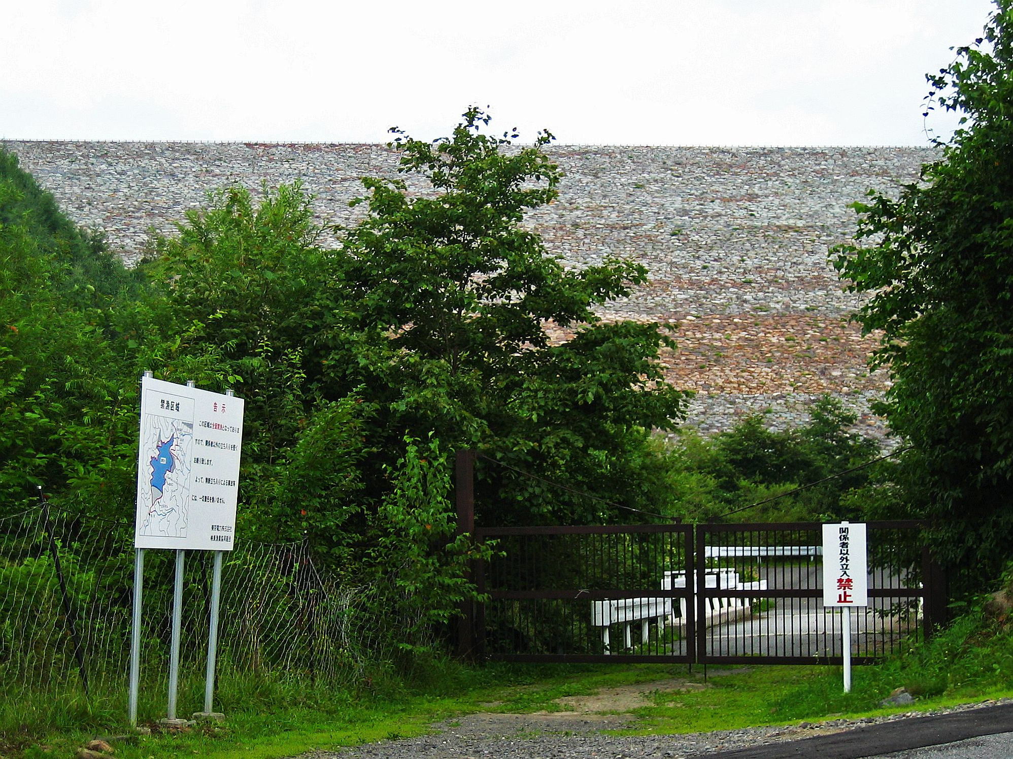 Kamihikawa Dam.